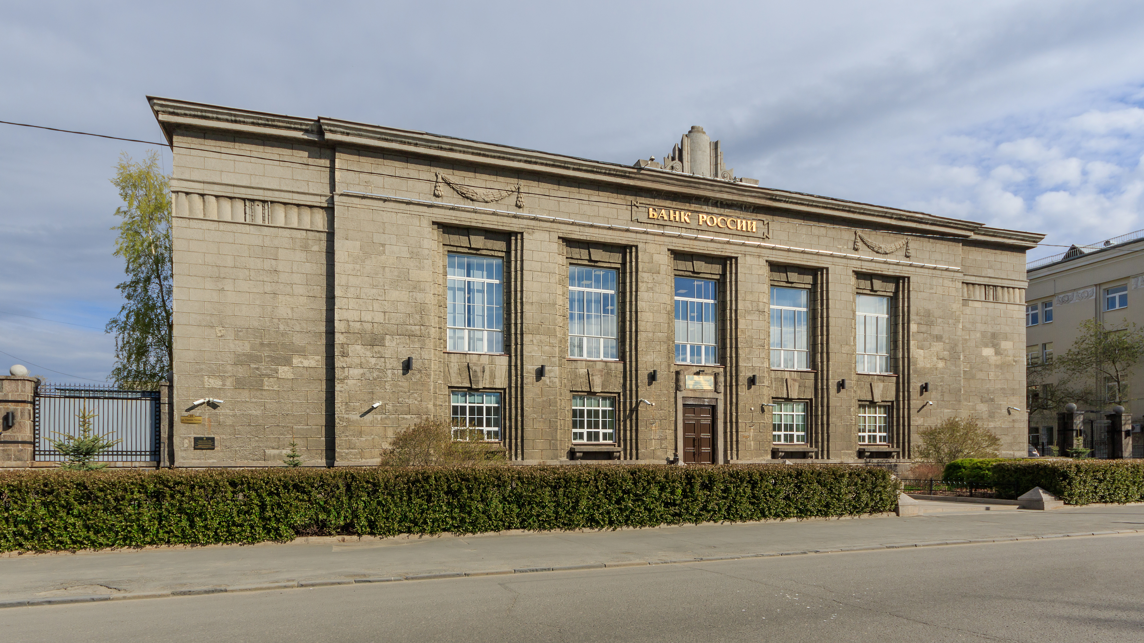 Central Bank building in Petrozavodsk, Republic of Karelia (Russia).